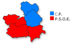 Most voted party by provinces in Castile-La Mancha regional elections, 1983